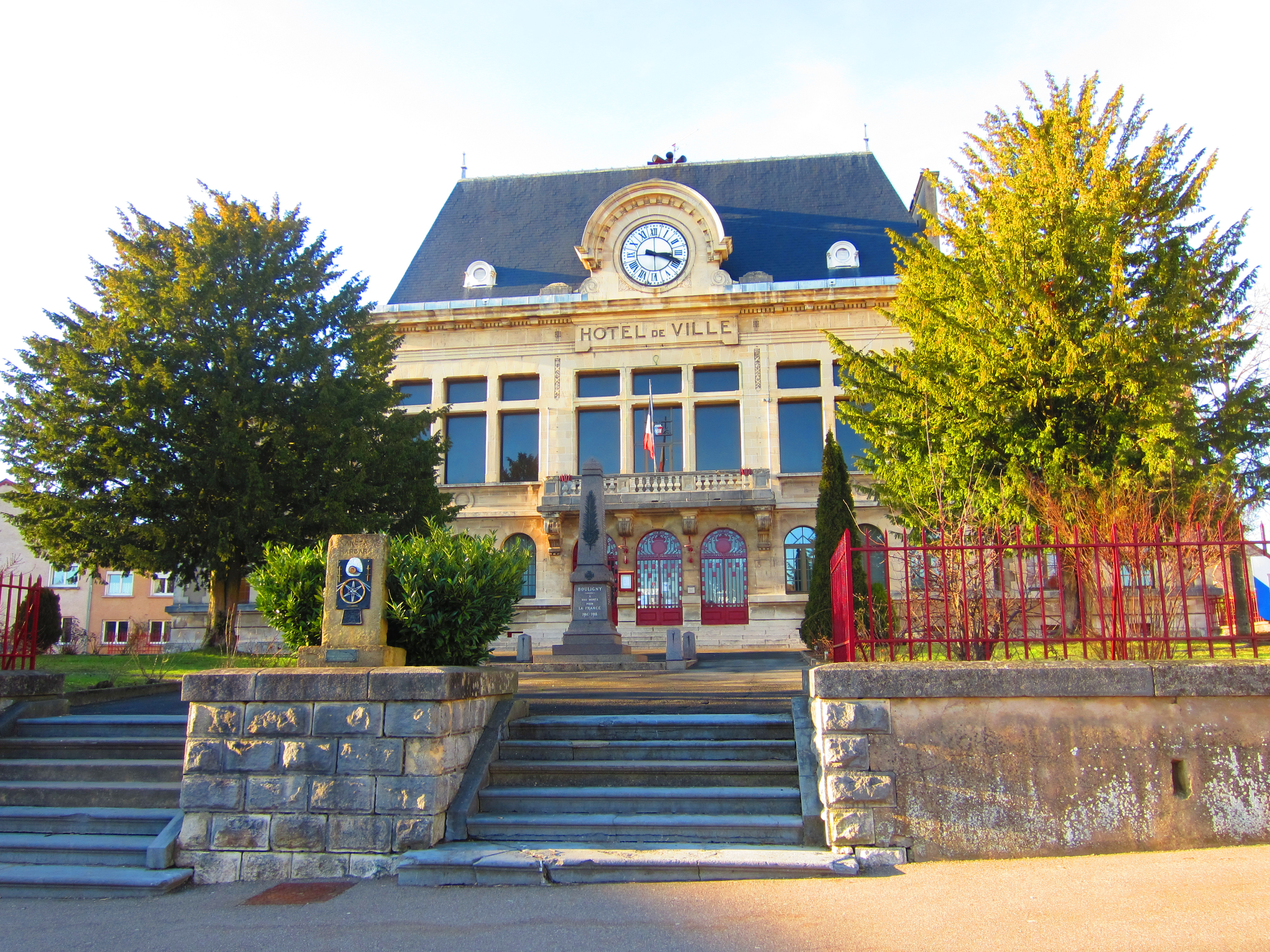 town council Bouligny